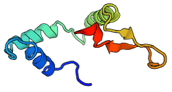 A crystal structure of FOXO